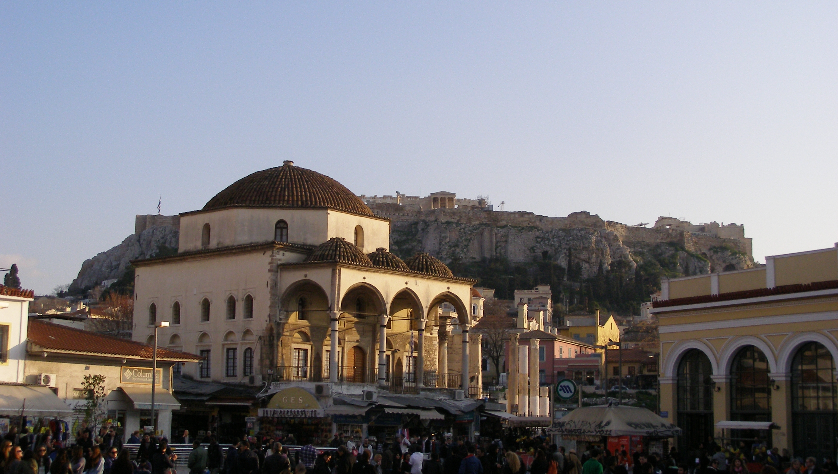 Athens - Tzisdarakis mosque and the Acropolis